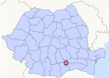 Location of Bucharest in Romania.